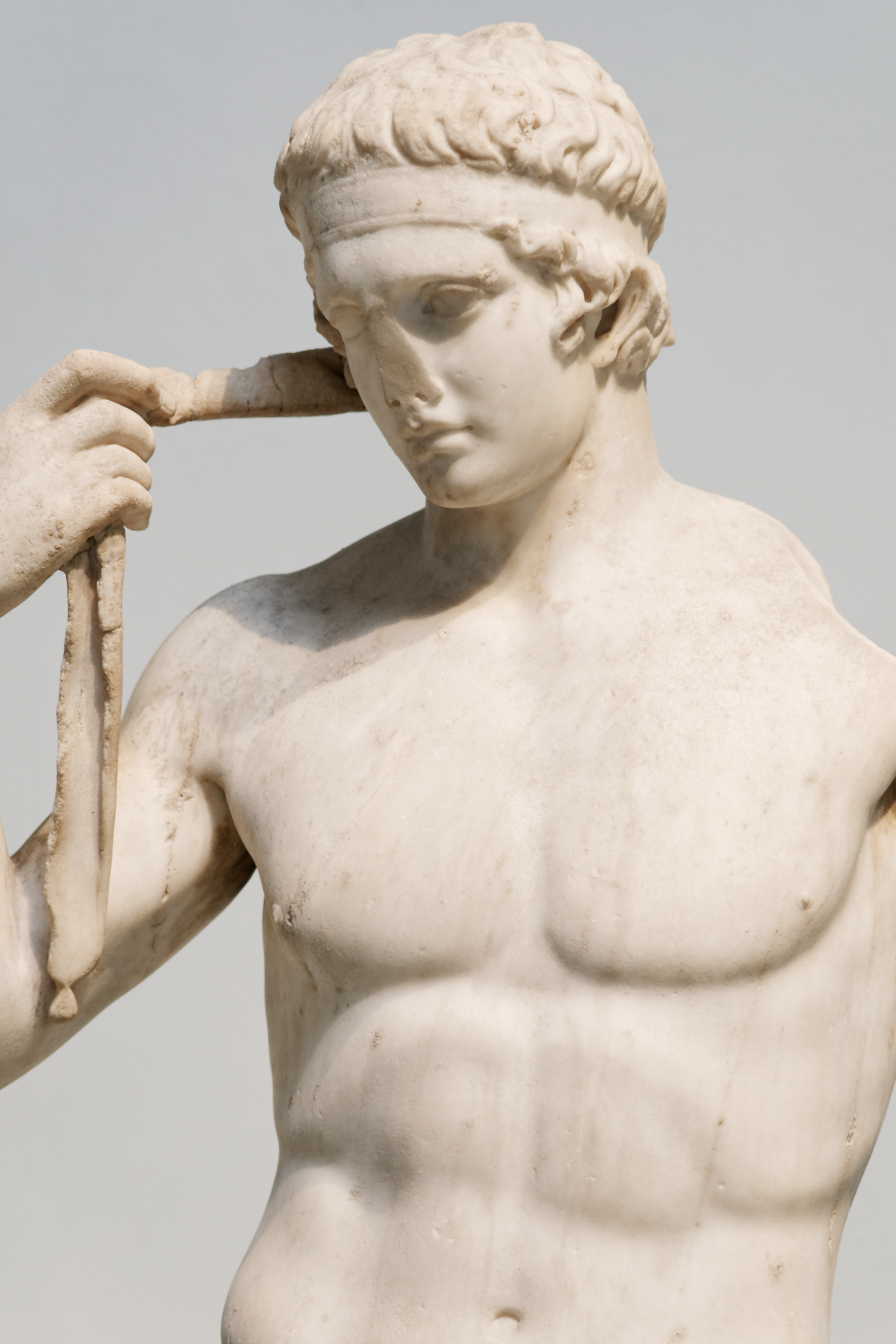 So-called “Farnese Diadumenos”: athlete tying the victor's ribbon around his head. Marble, Roman copy from the 1st century CE after a Greek original attributed to Pheidias. The subject is similar to that of Polykleitos but varies slightly in stance.